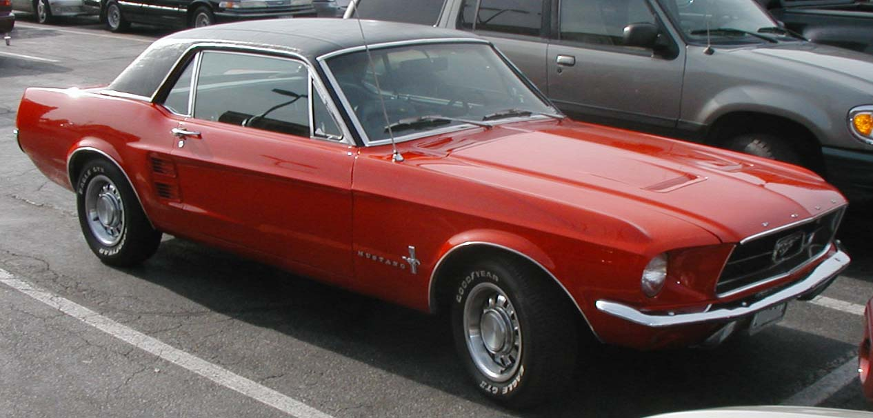 1967 Ford Mustang photographed in USA.